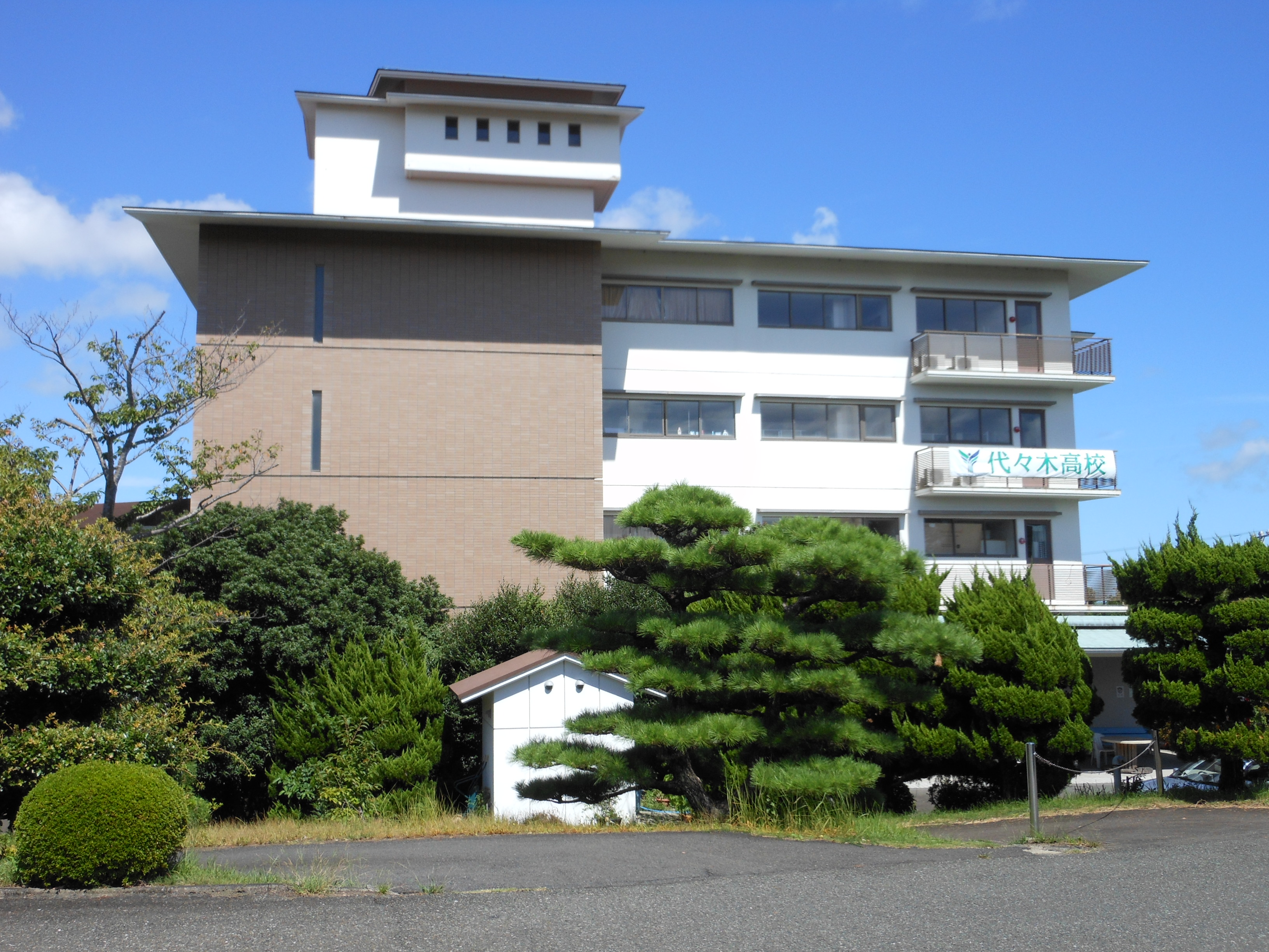 This is a high school building in Mie, Japan.